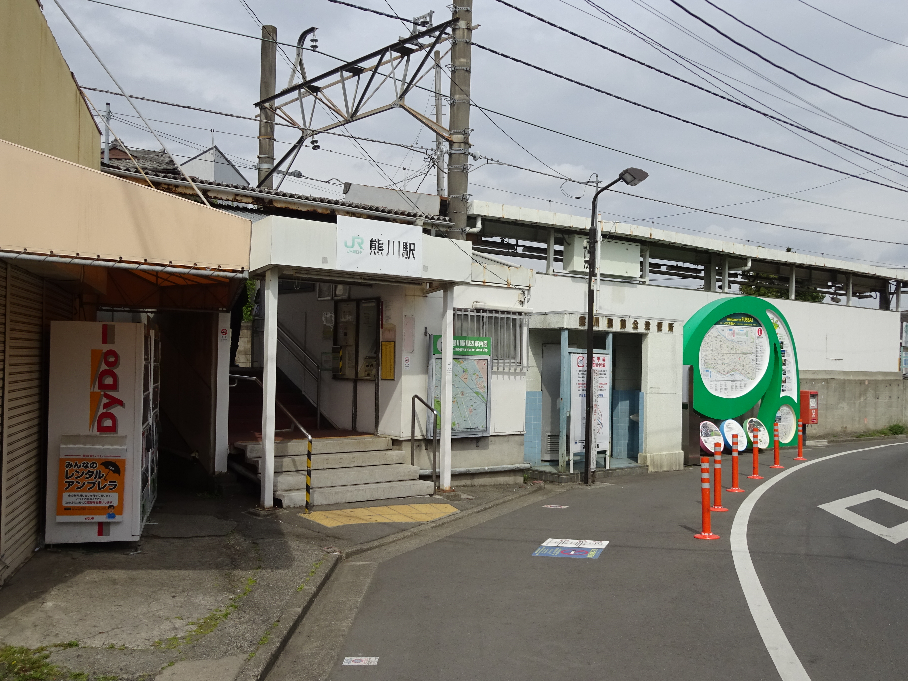 Kumagawa Station